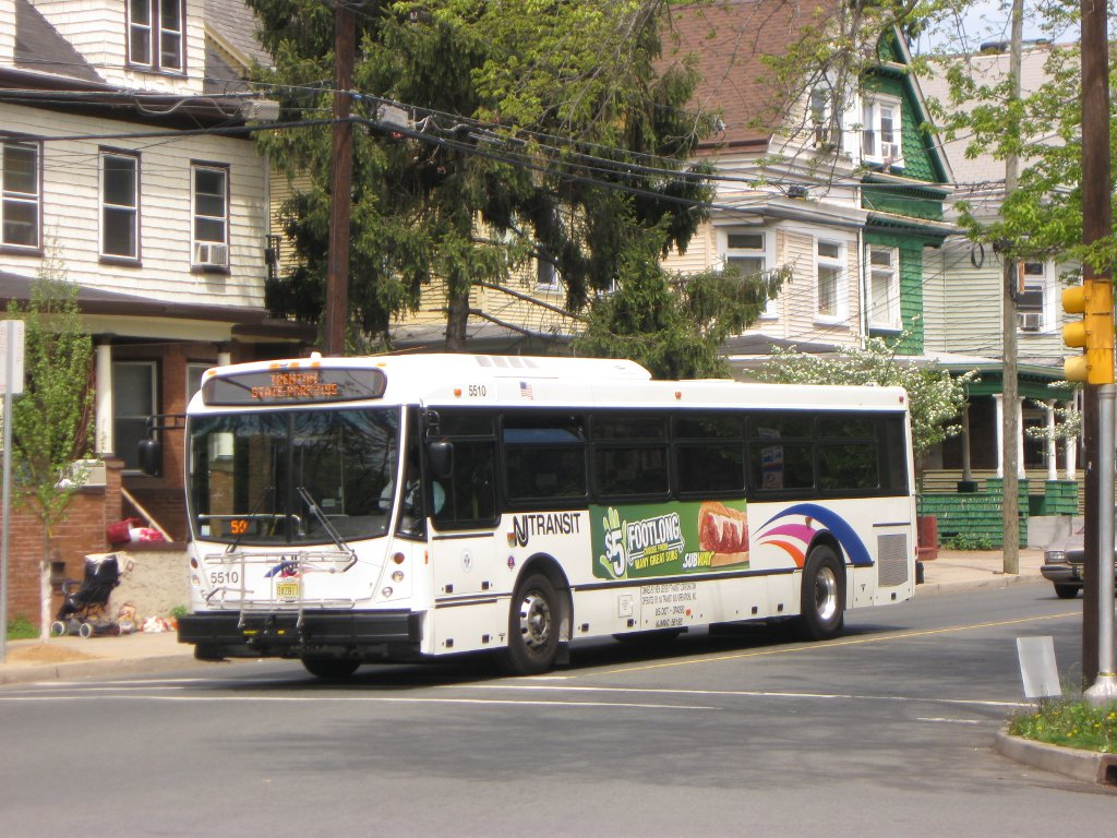 New Jersey Transit #5510 operates along Prospect Street in western Trenton, NJ